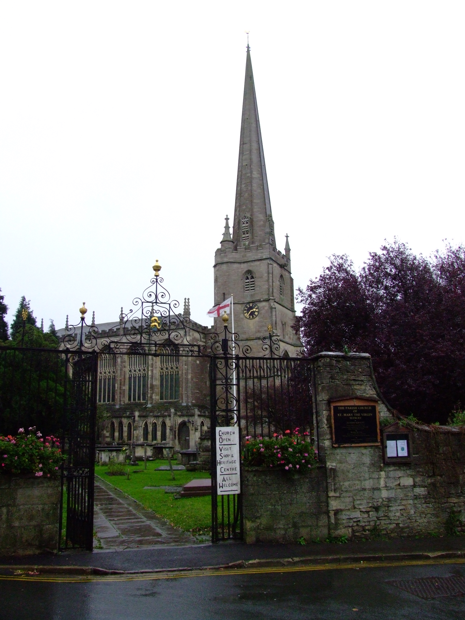 St Mary the Virgin Church Tetbury in the Cotswolds.